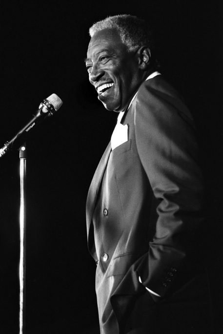 Joe Williams, Palo Alto CA Jazz Festival 7/27/86. Photo by Brian McMillen /